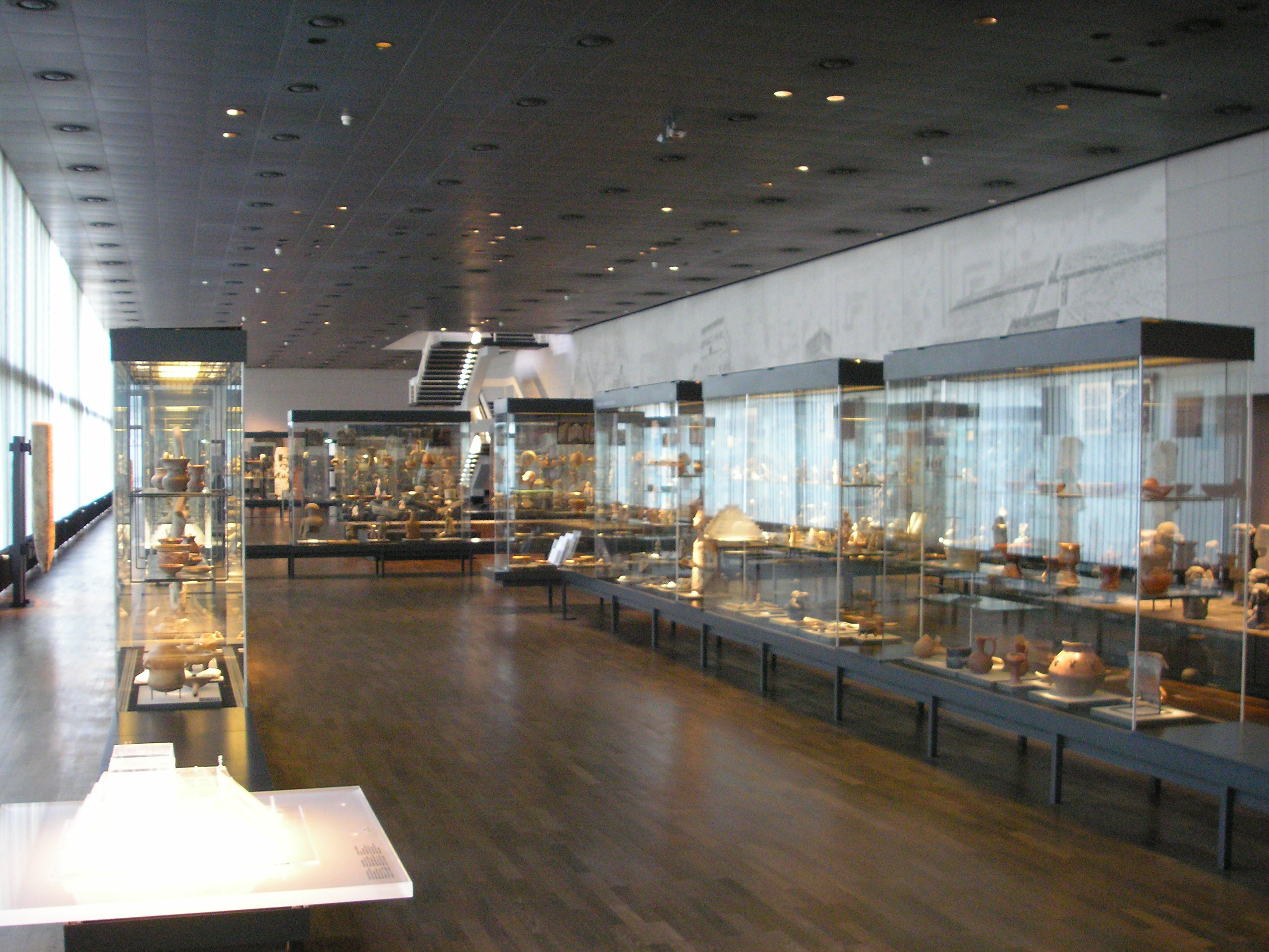 Interior view of the collection at the Ethnologisches Museum, Berlin-Dahlem, pre-Columbian America collection.